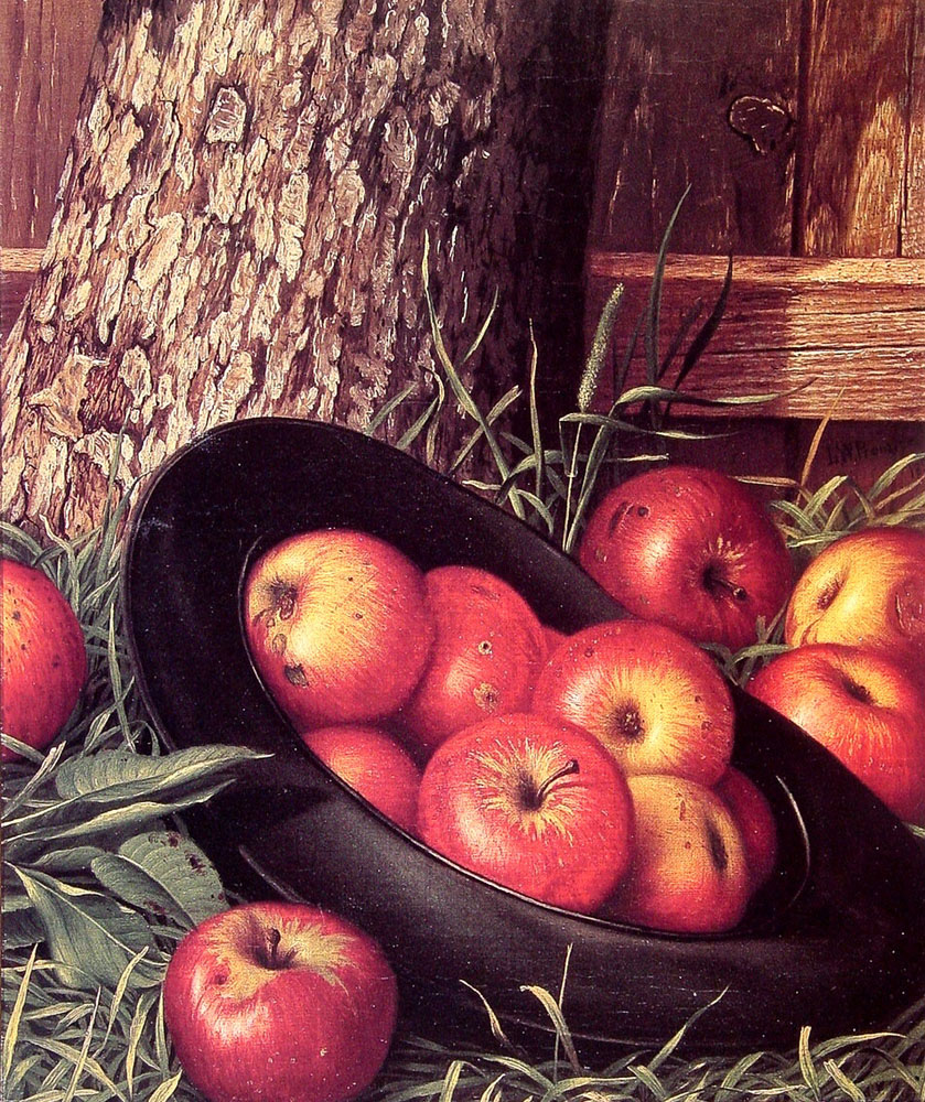 Still Life of Apples in a Hat